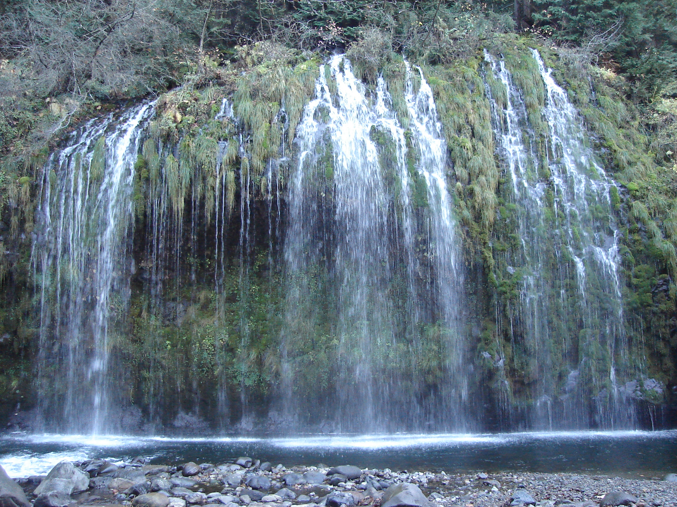 Mossbrae Falls, Dunsmuir, CA, USA. 1728x2304 (1855983 bytes) (Photographed Saturday, November26, 2005, 11:15:54 AM using Sony Digital Still Camera Cyber-shot DSC-S40.)